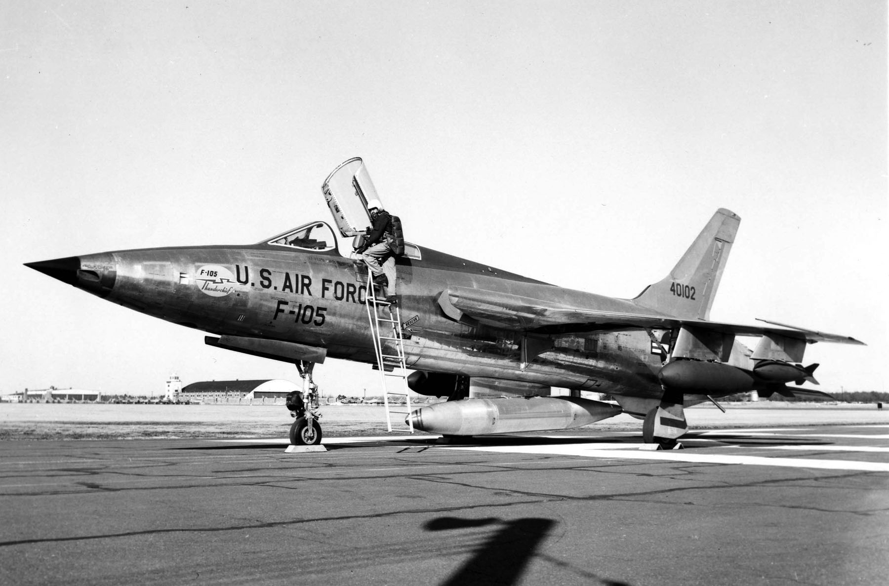 Republic F-105B-1-RE Thunderchief (SN 54-0102, the third pre-production -B model).